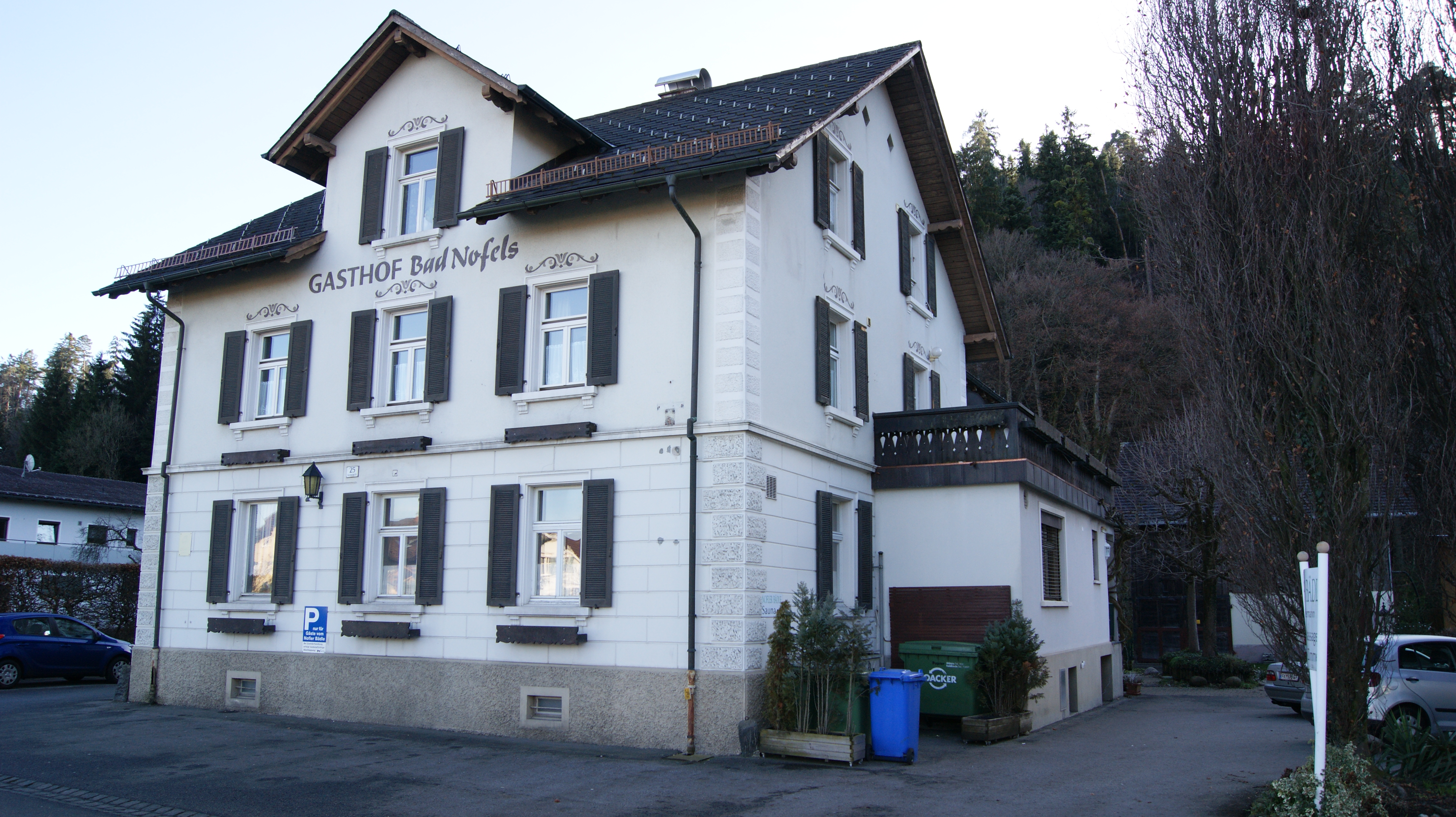 Spa Nofels, Sebastian-Kneipp-Street No. 25 in Nofels, Feldkirch, Vorarlberg, Austria.